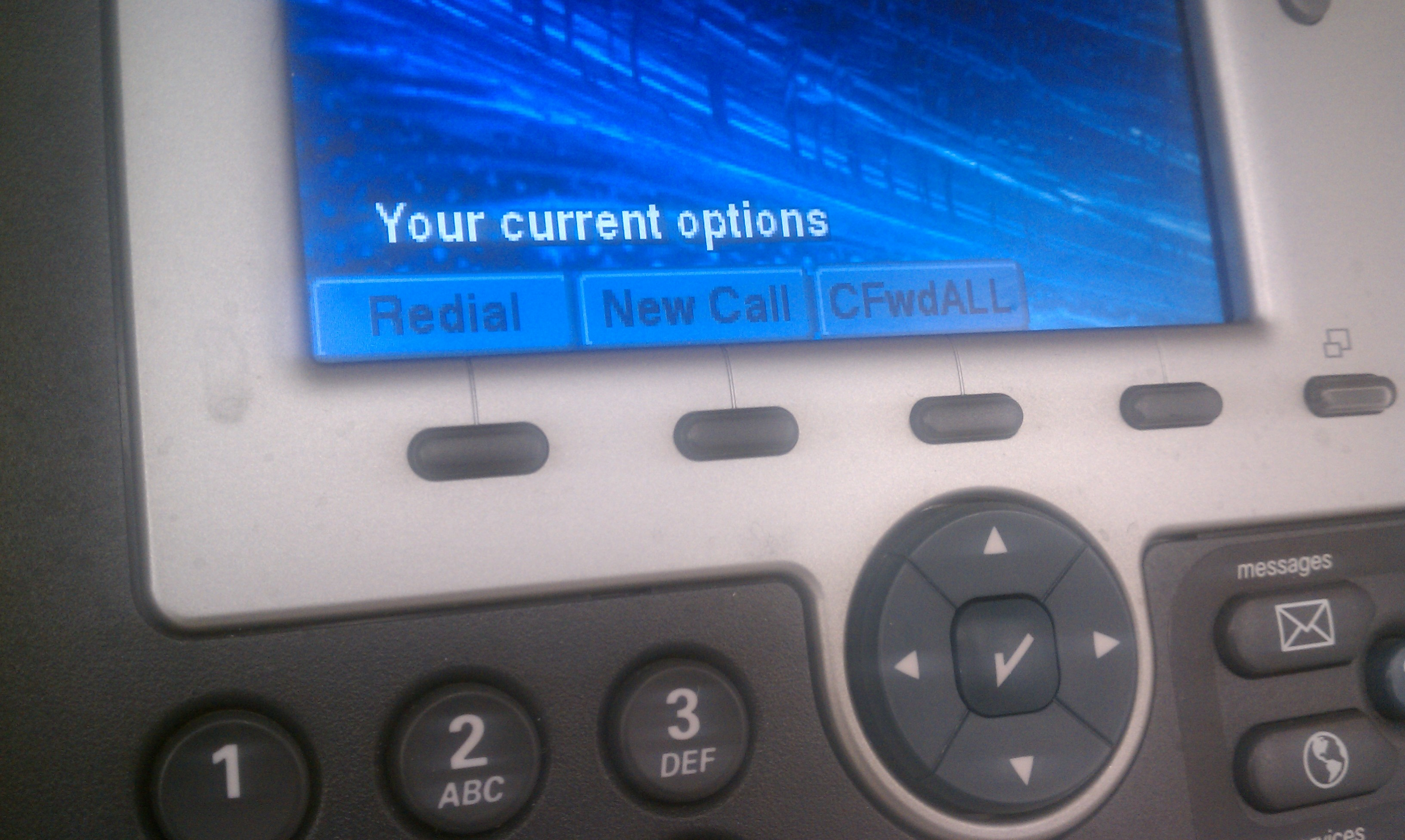 Softkeys on a business telephone